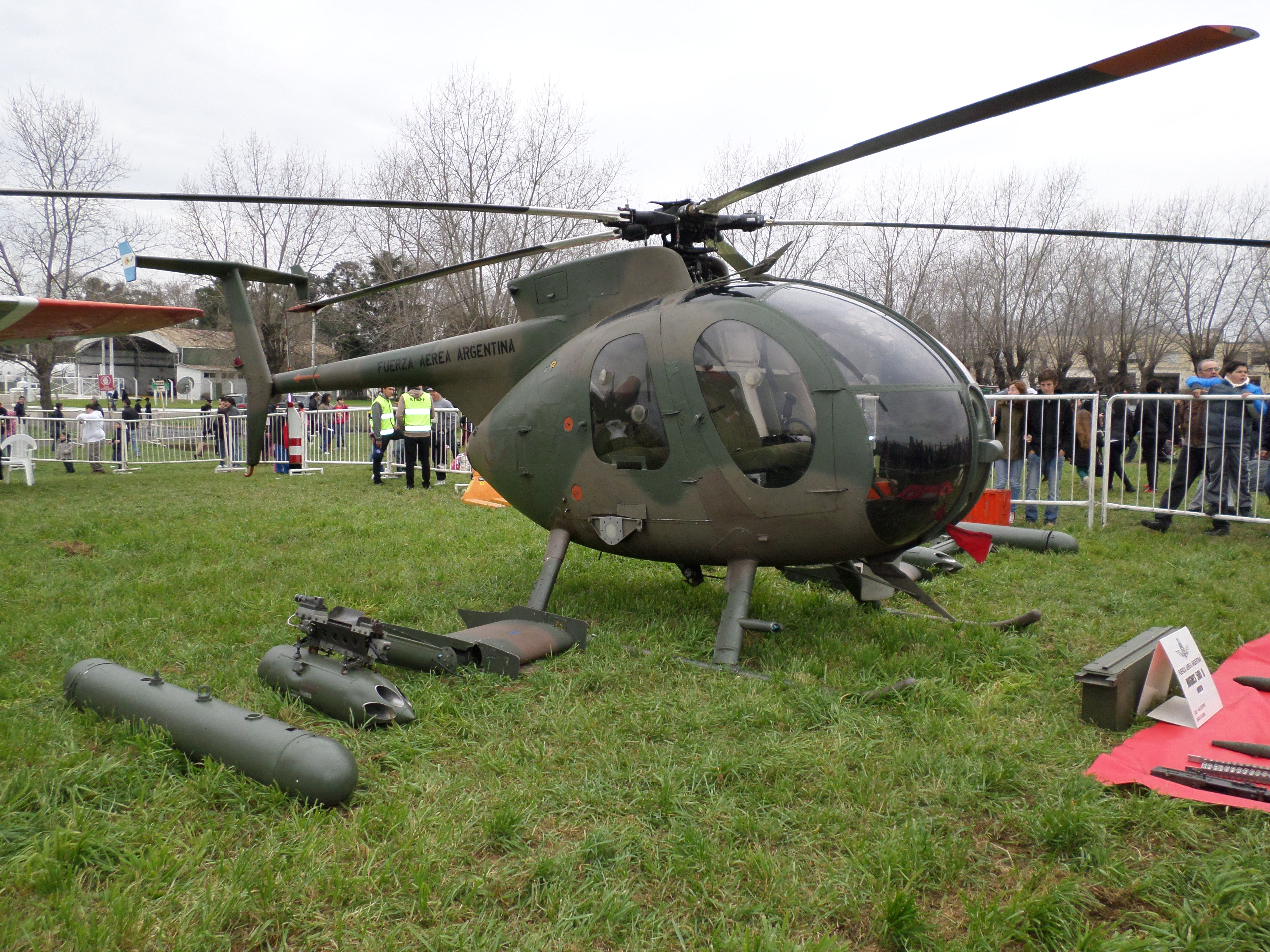 Hughes 500 "Avispa" (Spanish for Wasp) of Argentine Air Force in Morón, Buenos Aires, Argentina.